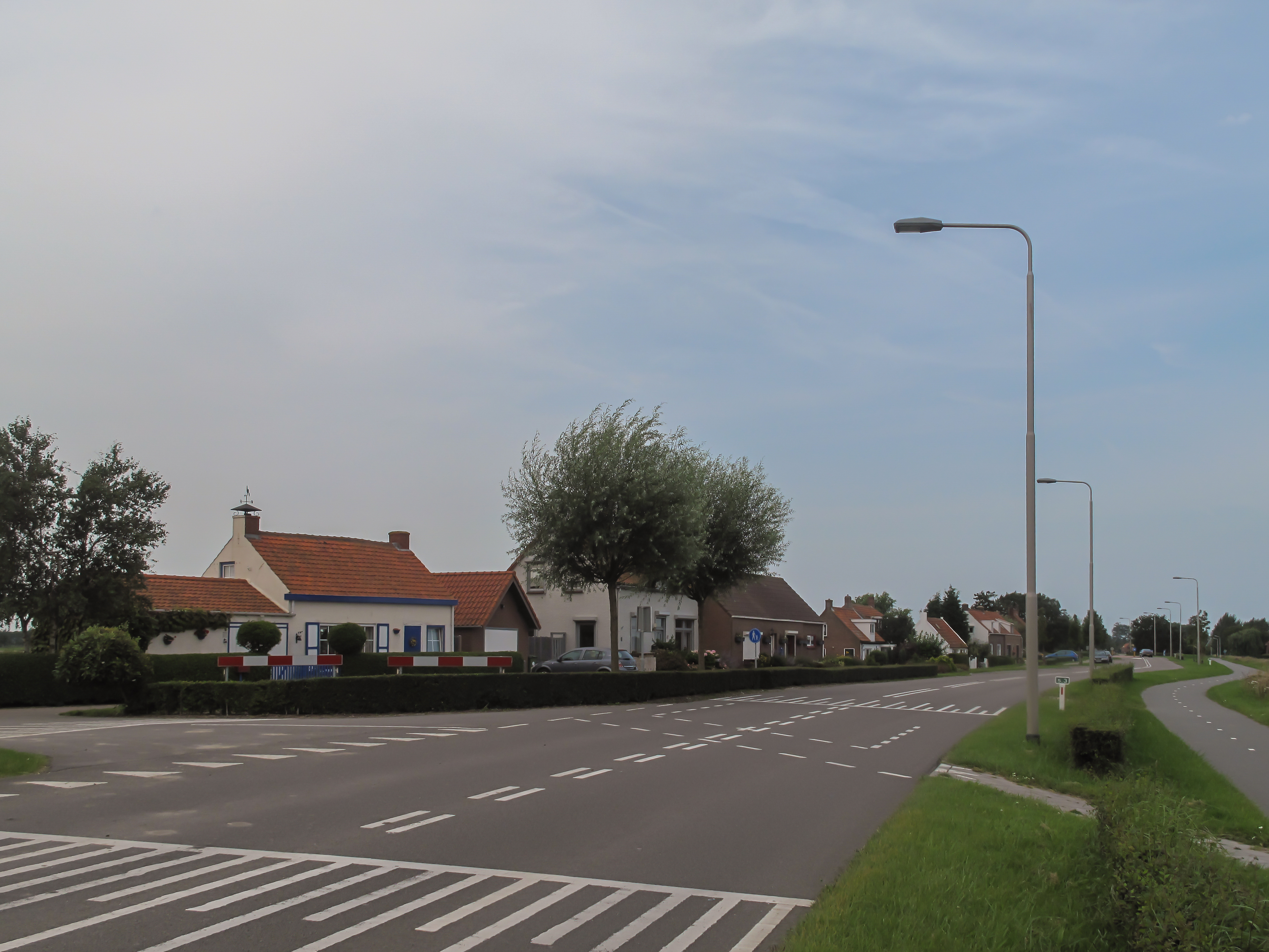 Boerenhol, view to the hamlet